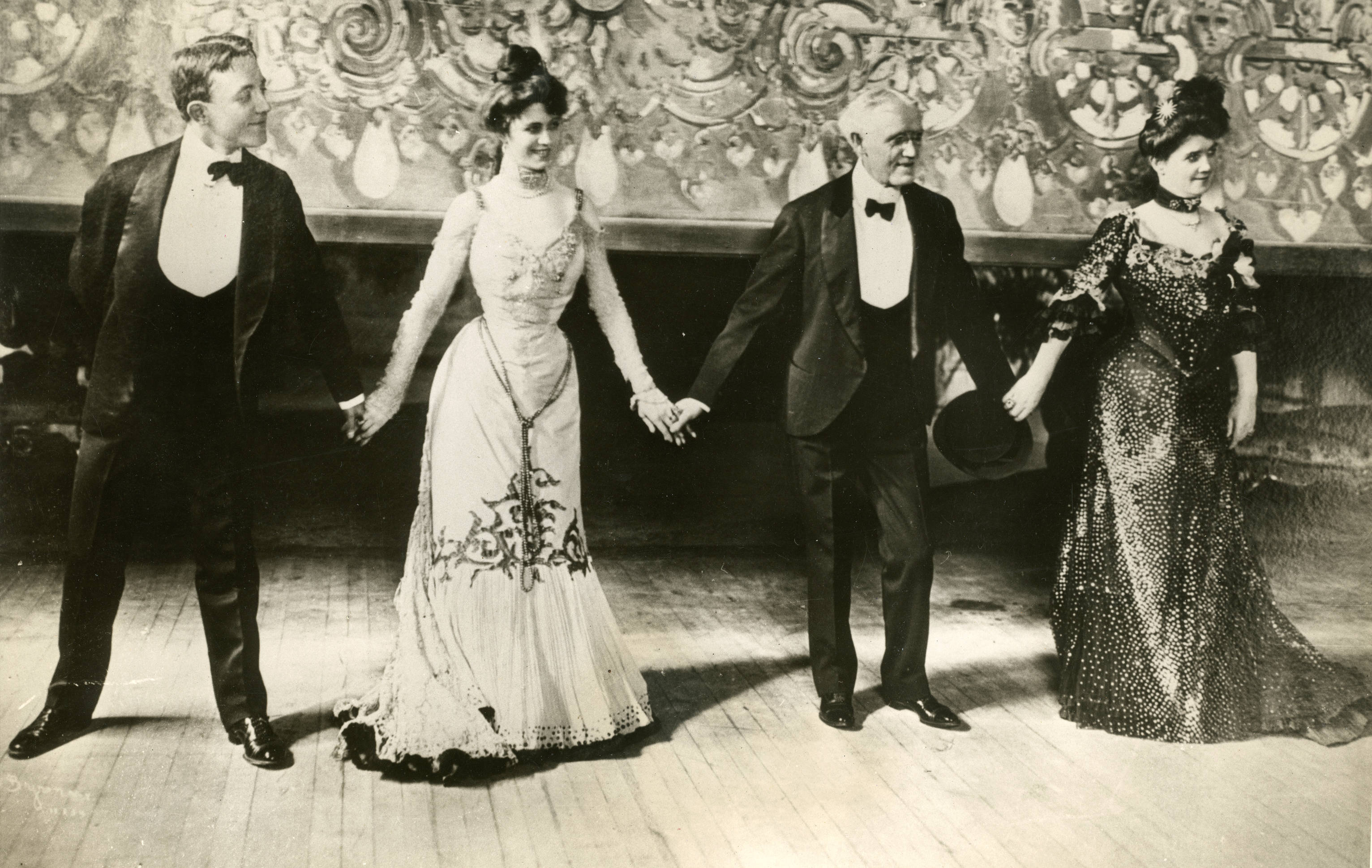 A curtain call for the Four Cohans, George M., Josephine, Jerry and Helen Frances. Subjects: actors, actresses, actors, actresses